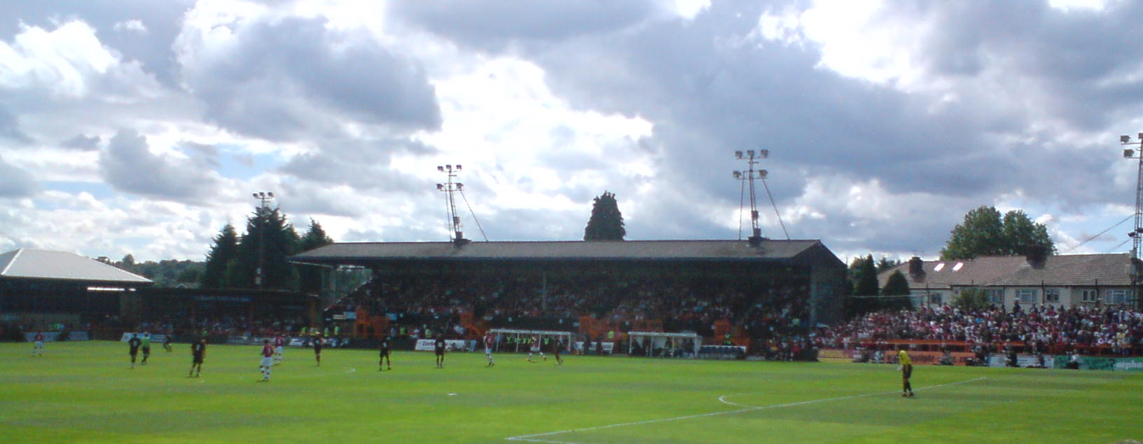 Photo of Underhill Stadium